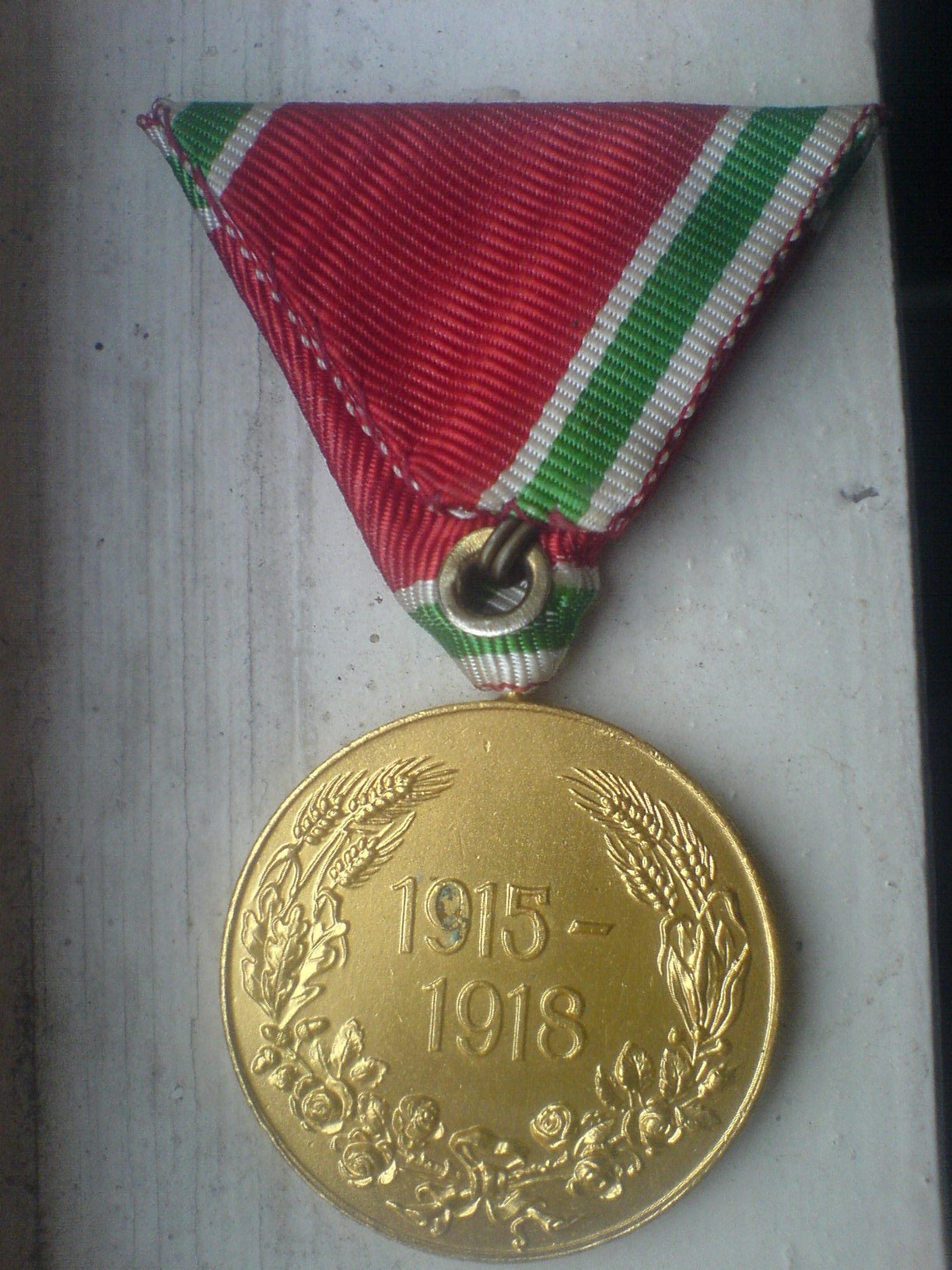 Commemorative Medal for World War I, Bulgaria 1933, ribbon for combatants, Reverse side